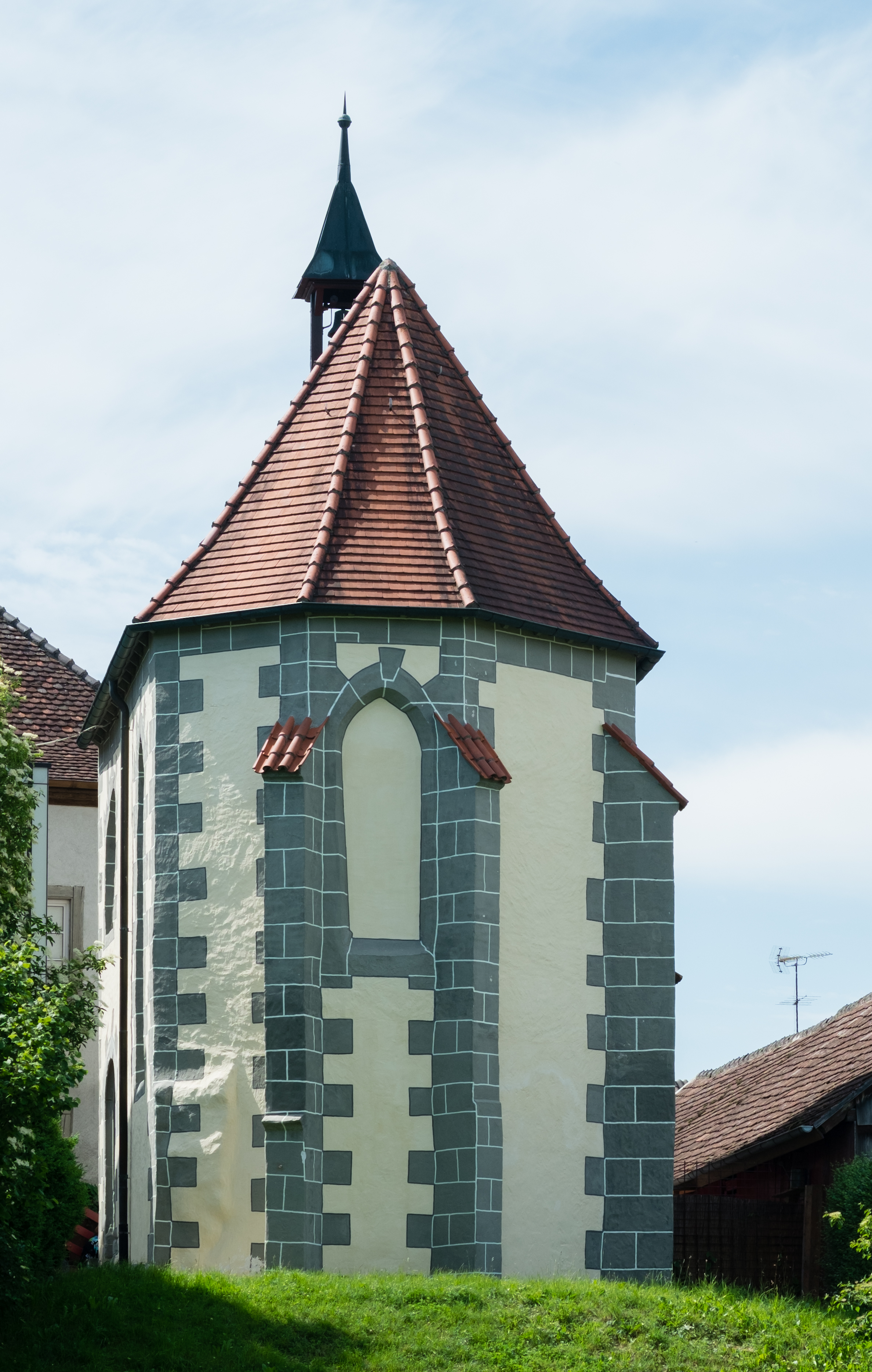 Chapel St Agatha, Friedrichshafen-Efrizweiler, district Bodenseekreis, Baden Wurttemberg, Germany